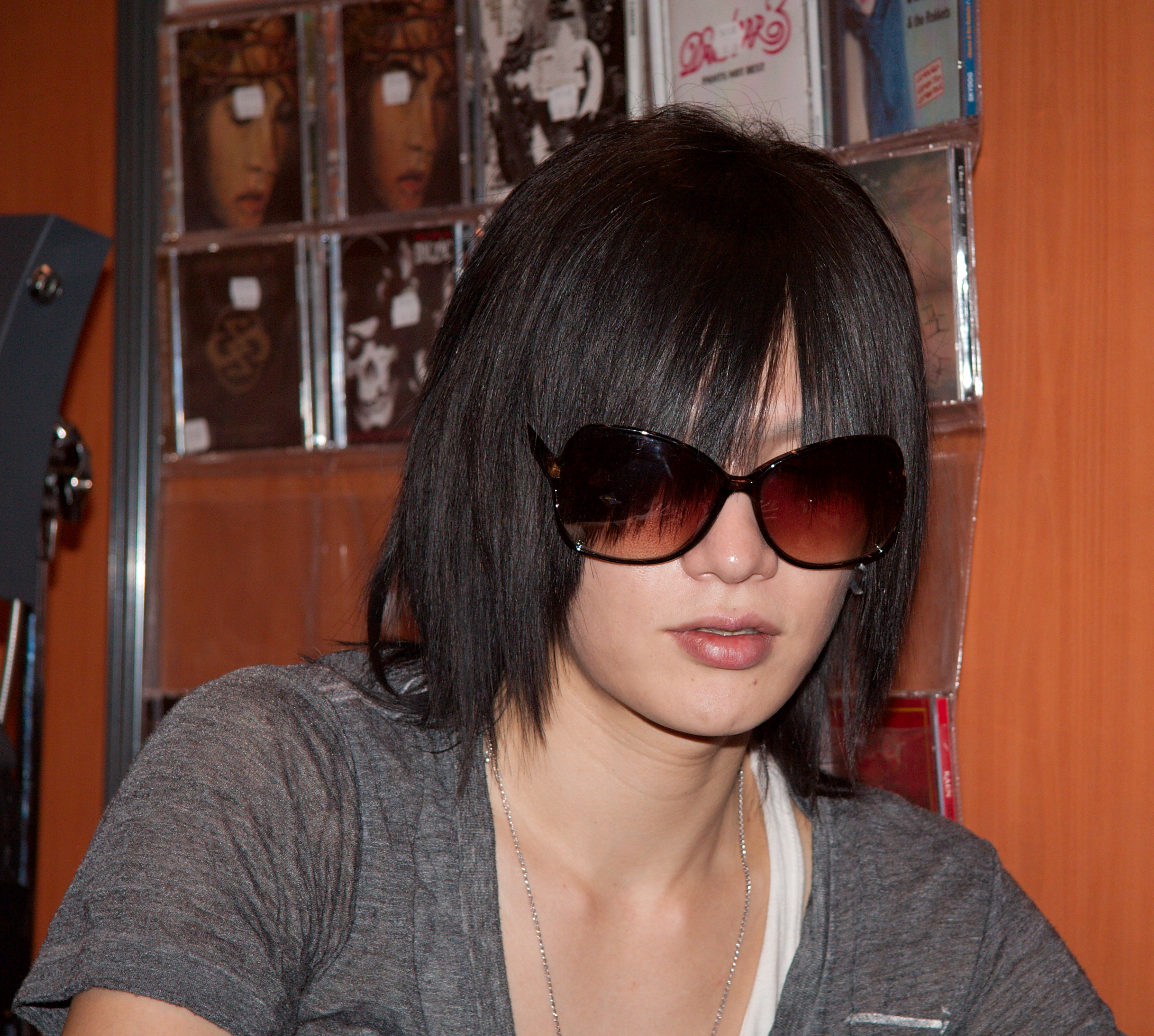 Autograph session with Plastic Tree at Chibi Japan Expo 2007 (Paris, France).